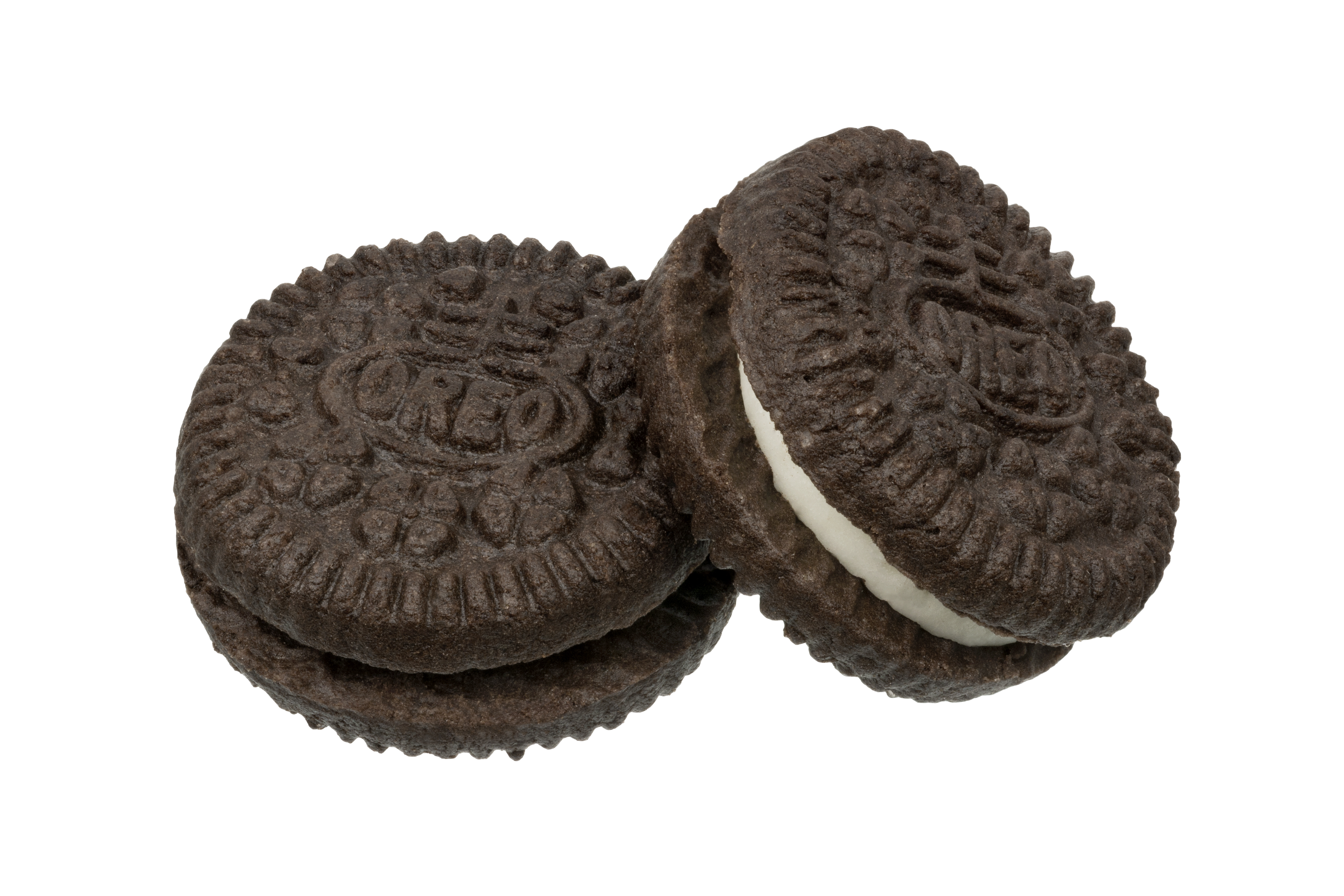 Two Oreo Minis, by Nabisco. Bought in a New York supermarket.